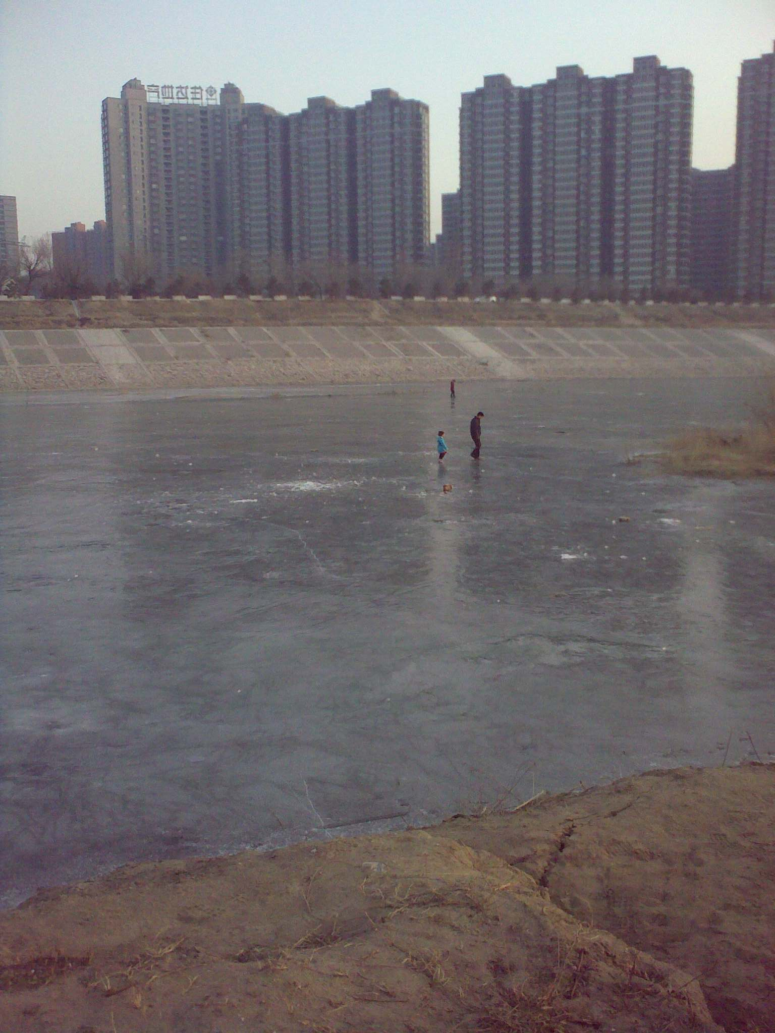 Frozen Chaobai River at Yanzhou Town, Sanhe County, Langfang Prefecture, Hebei Province, China